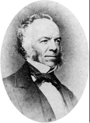 William Timothy Cape was an early school master in Sydney, Australia